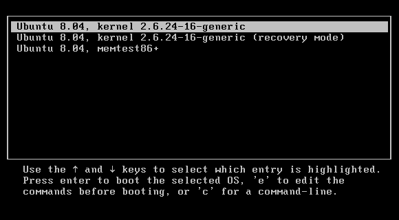 Screenshot of GNU GRUB, ready to boot ubuntu 8.04 (RC).